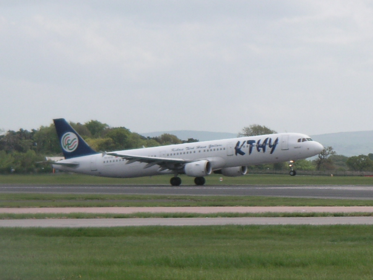 "Iskele" takes off from Manchester to Ercan via Dalaman at 1245